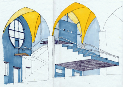 Restoration and renovation of Teatro Ruzante in Padua. Study of the interior space: the gallery.